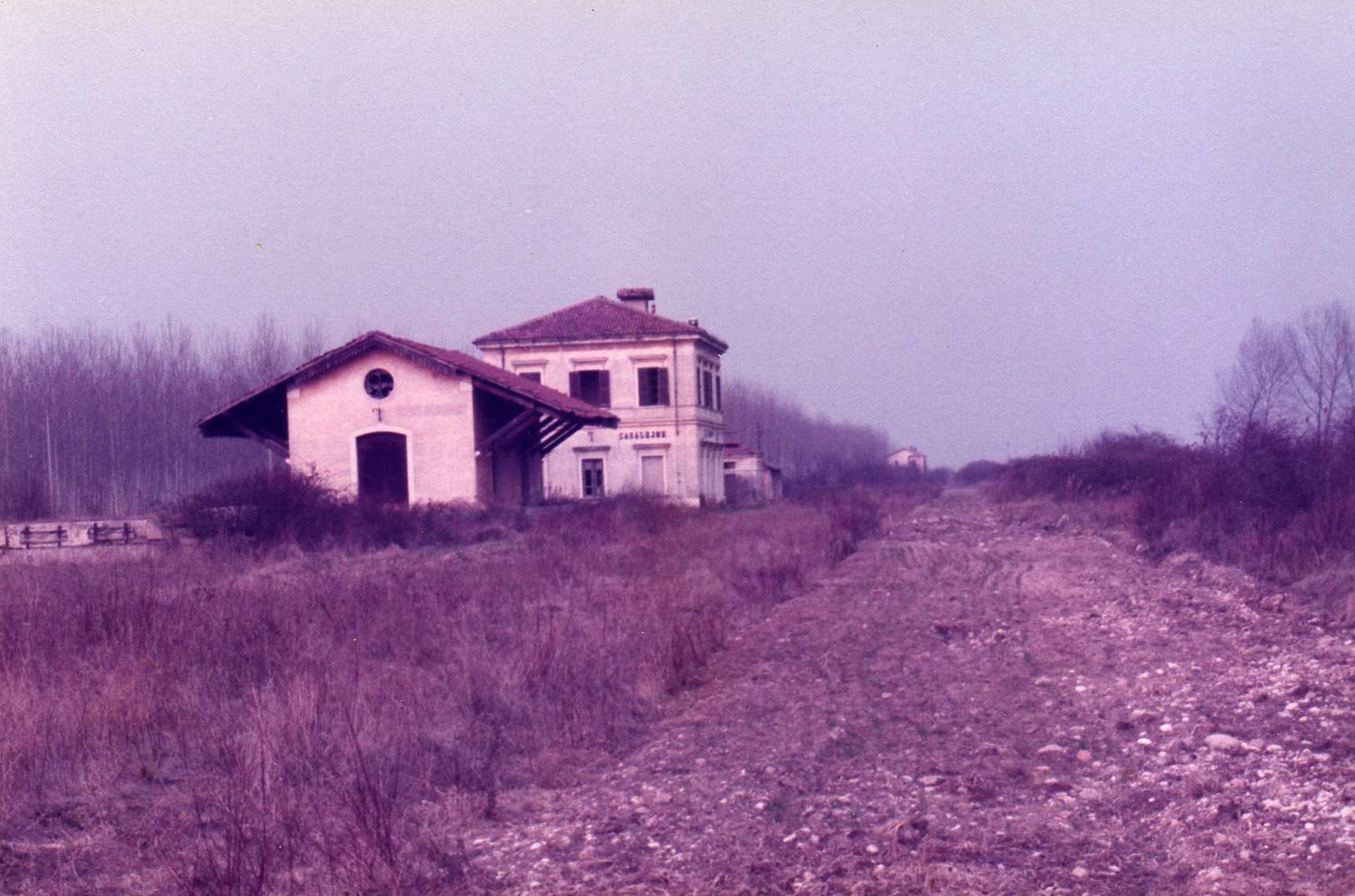 Casaleone train Station